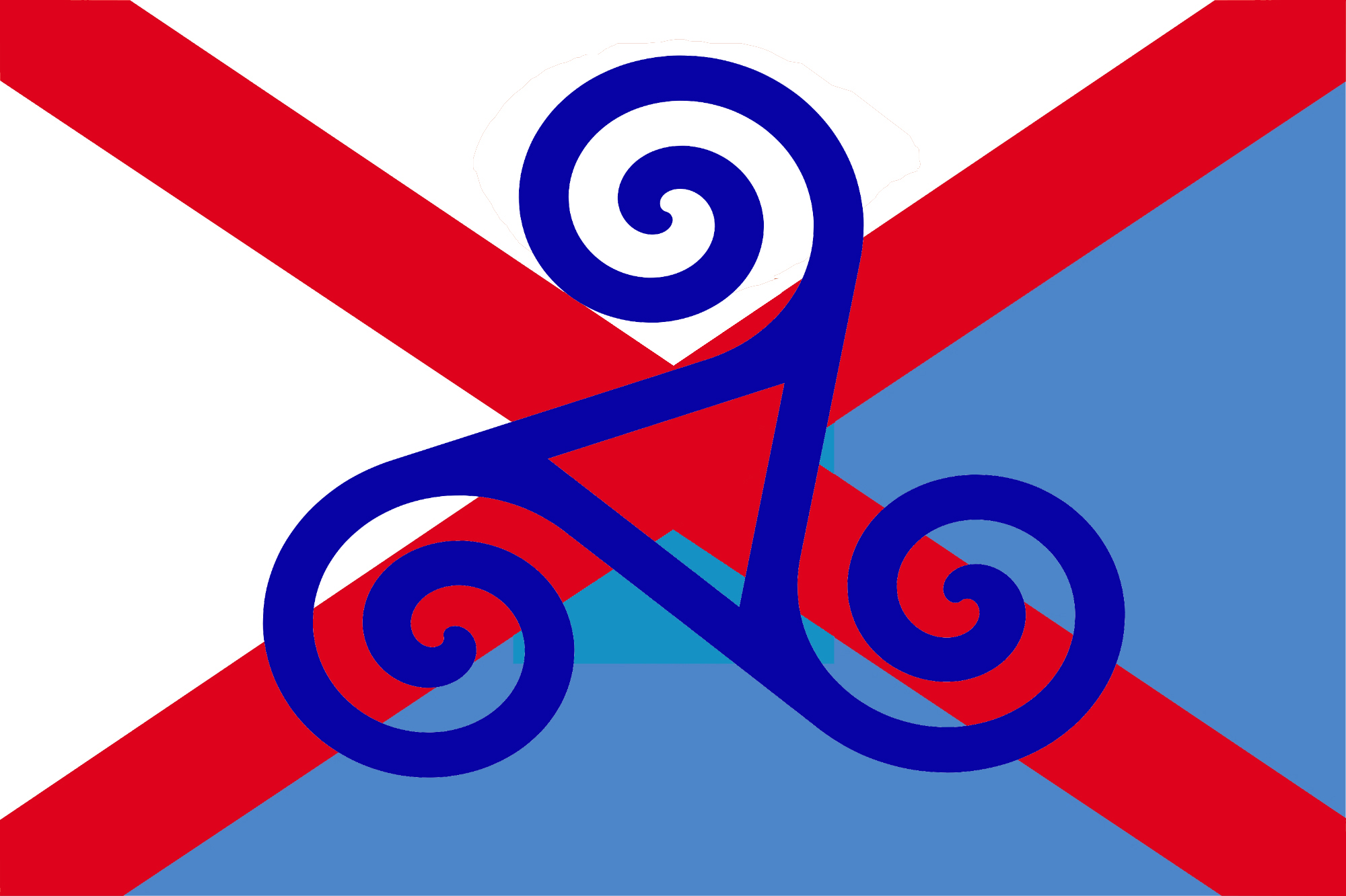 Bercian regionalism